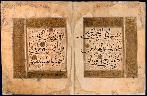 Qur'n Tabari: First volume of the Persian translation of the Koran Comment Tabari 400 x 330 mm, [Tabriz] (Iran), 1210 - 1225